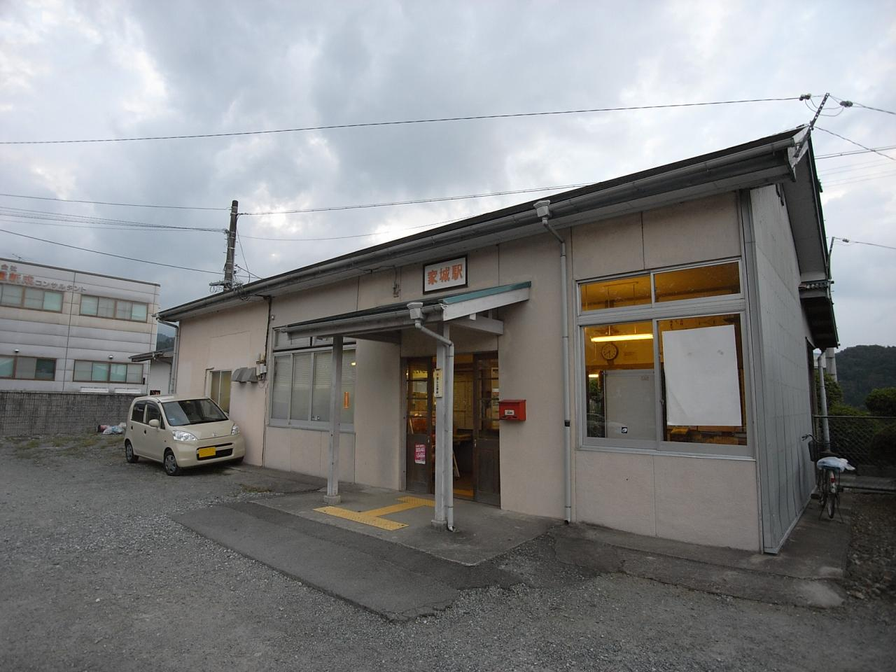 Ieki Station